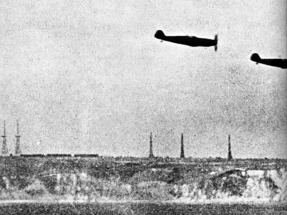 German Messerschmitt Me 109E fighters passing a British "Chain Home" radar station near Dover, Kent (UK).